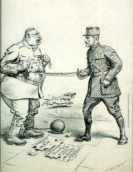 Military officer "Foch" poking sword, "fifteenth point," at German military officer with ball and chain standing over paper, "Treaty of Peace, unacceptable on account of failure to observe 14 points--German government," while dachshund runs away.